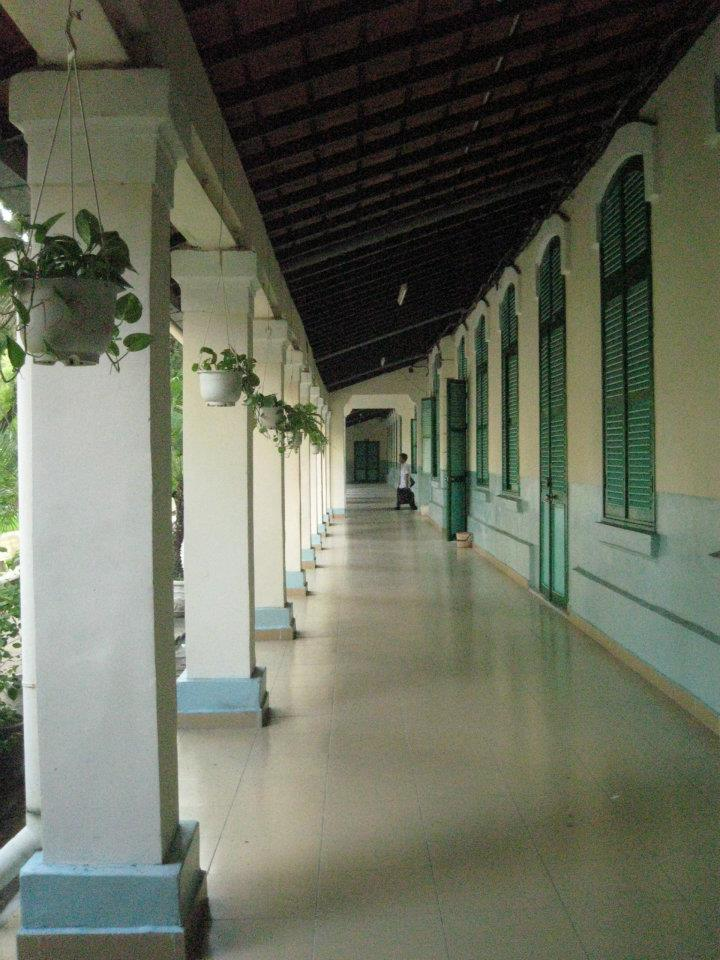 Hành lang Lê Quý Đôn